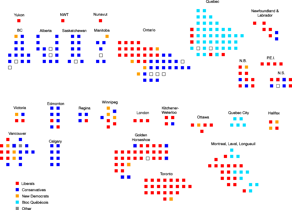 Schematic map of the results of the Canadian federal election, arranged by province/metropolitan area. As a regular map of the ridings tends to visually distort the importance of large northern ridings and make urban ridings nearly impossible to see, this diagram uses squares of equal size to represent seats, arranged in approximately geographical fashion. The geographical distribution of votes within each province or metropolitan area is roughly represented (for example, one can see that most Conservative seats in Ontario were in the southeast) even though specific ridings are not indicated by name. The white squares indicate a metropolitan area that is magnified in the lower part of the image. (One metropolitan area, the Golden Horseshoe, itself contains a white square that represents Toronto proper.)